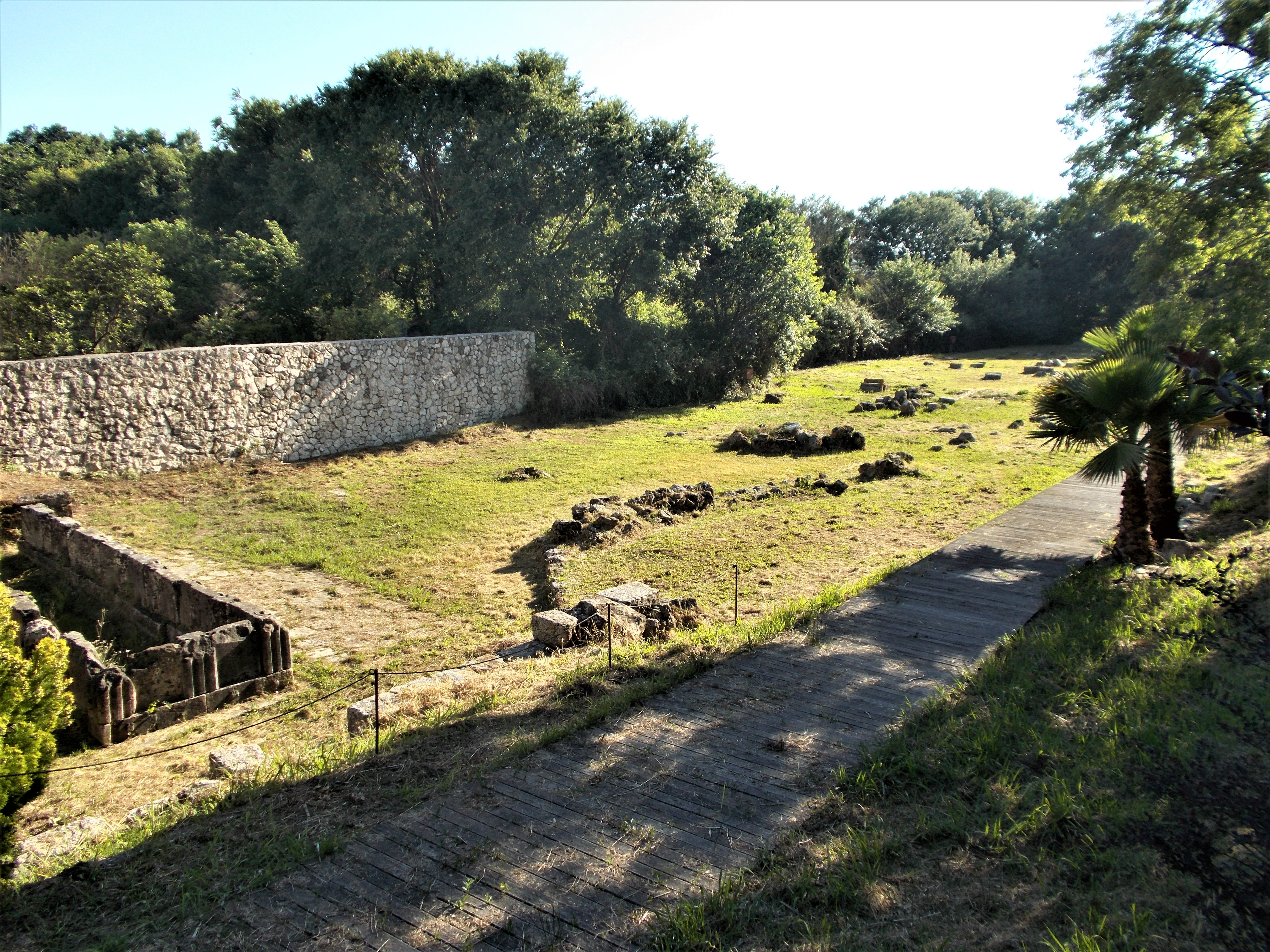 Temple of Artemis in Corfu (northeast view)